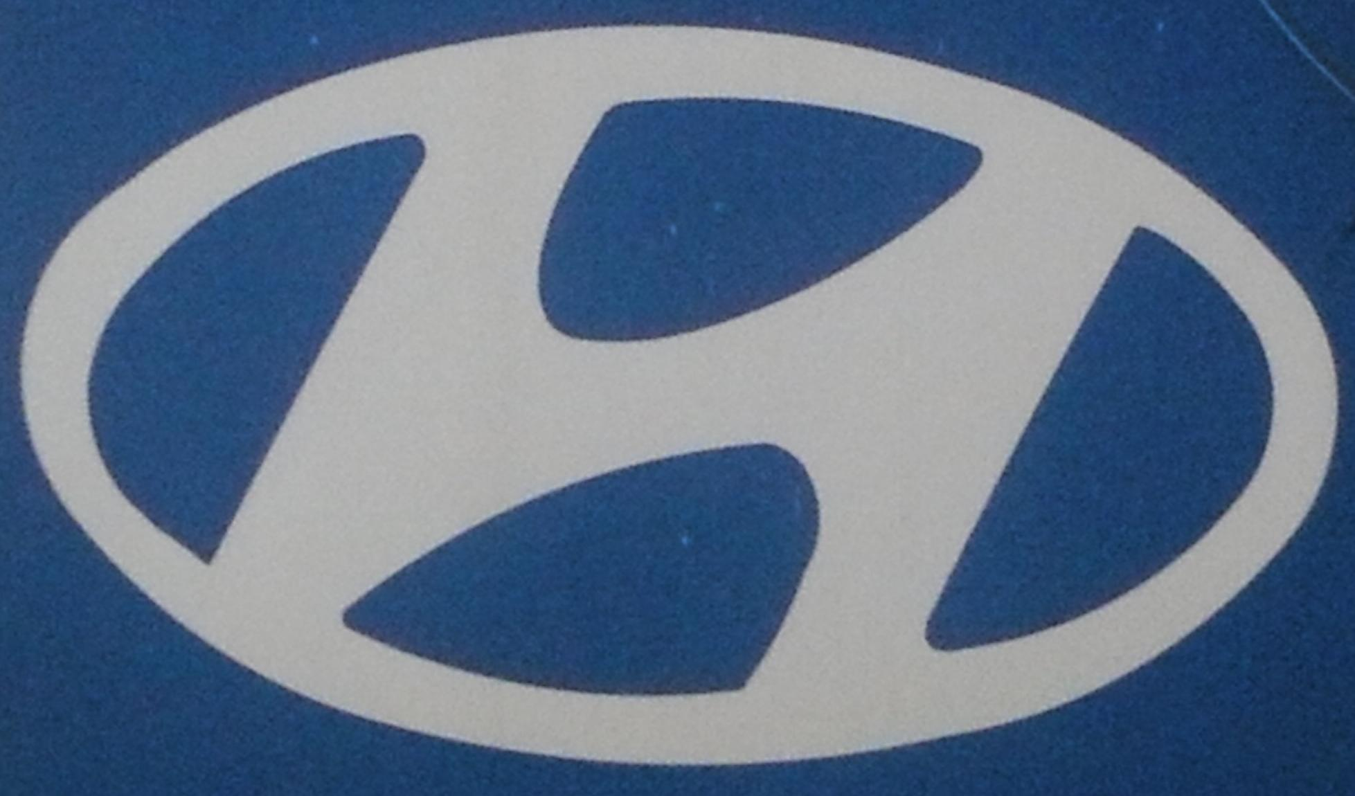 Hyundai Motors Logo - After 1992